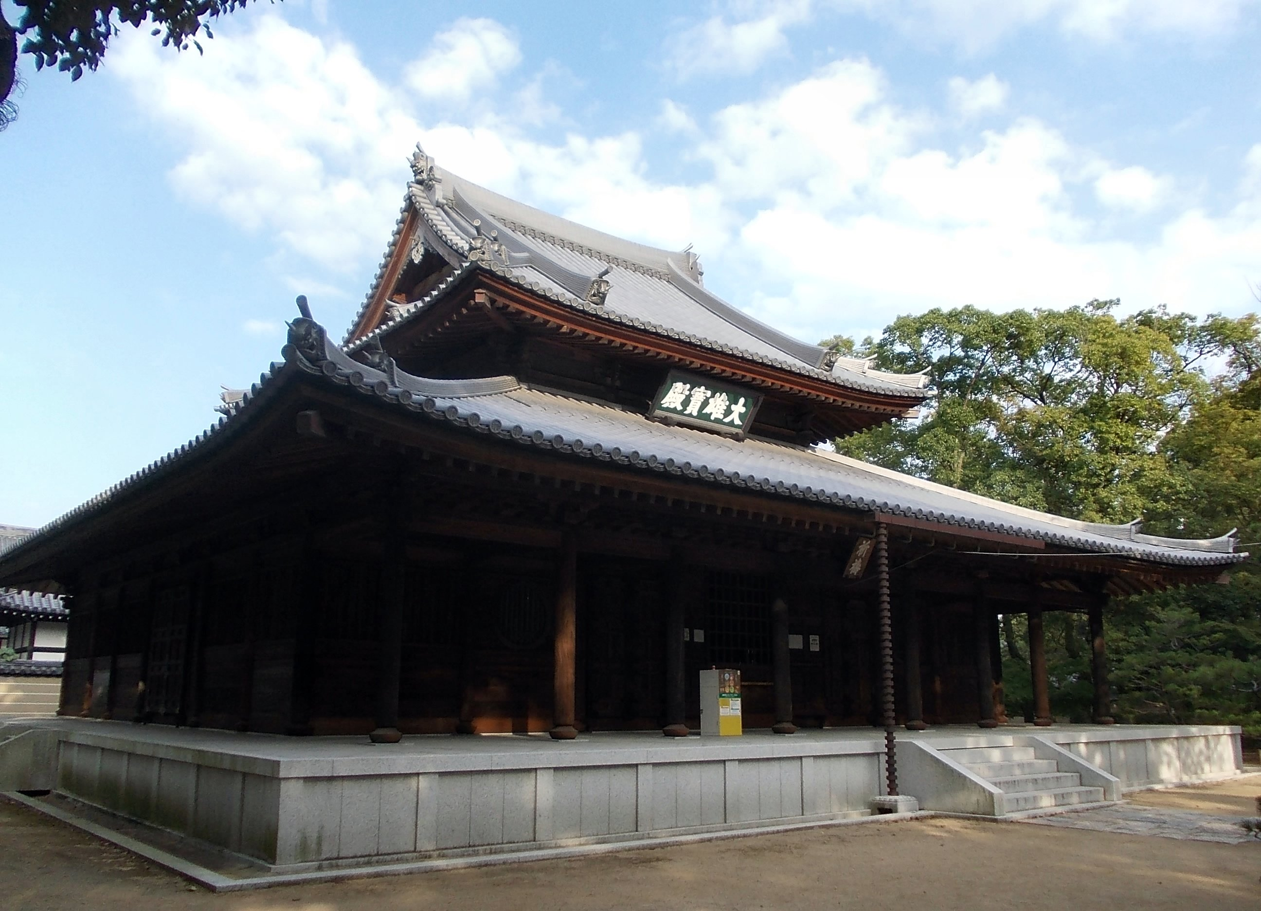 Daiyuhoden of Shofuku-ji Buddhist Temple, Hakata-ku, Fukuoka, Japan. Taken on 26 October 2015.